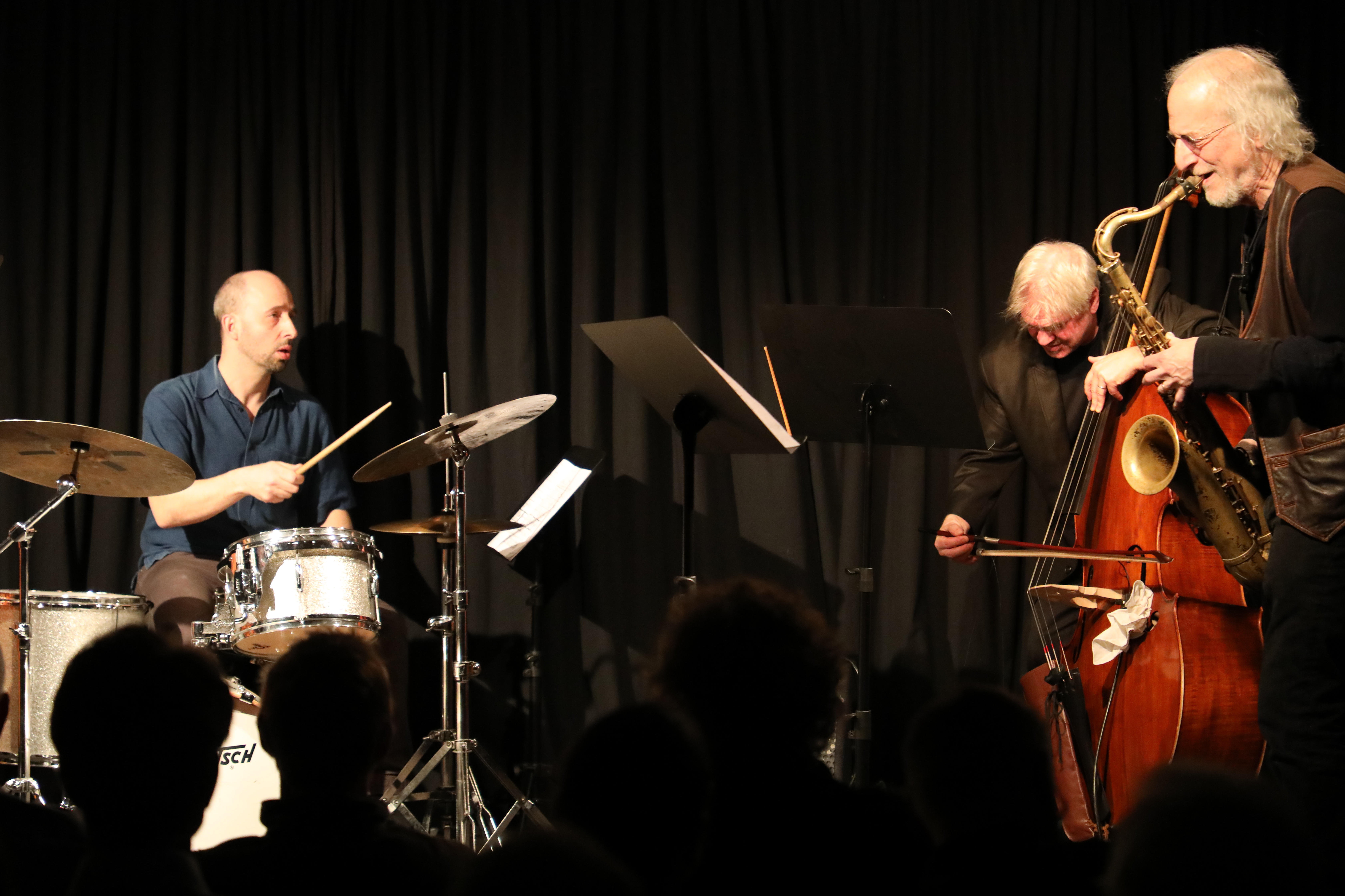 The Fictive Five is the jazz ensemble of composer and saxophone player Larry Ochs. Members are Nate Wooley (tr), Harris Eisenstadt (dr), Pascal Niggenkemper (db) & Ken Filiano (db).